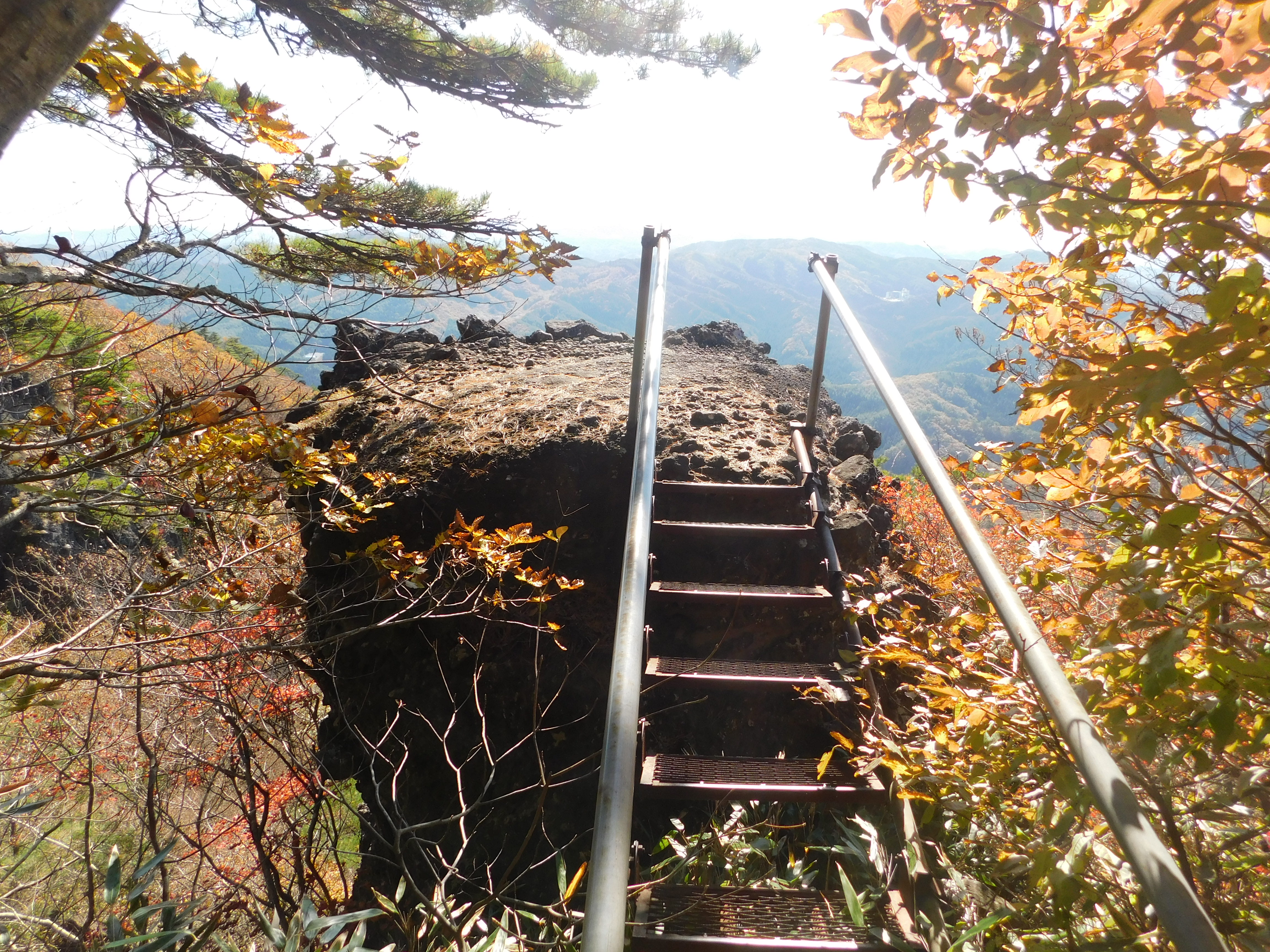 Tengu no Sumo Jo on Mount Ryozen